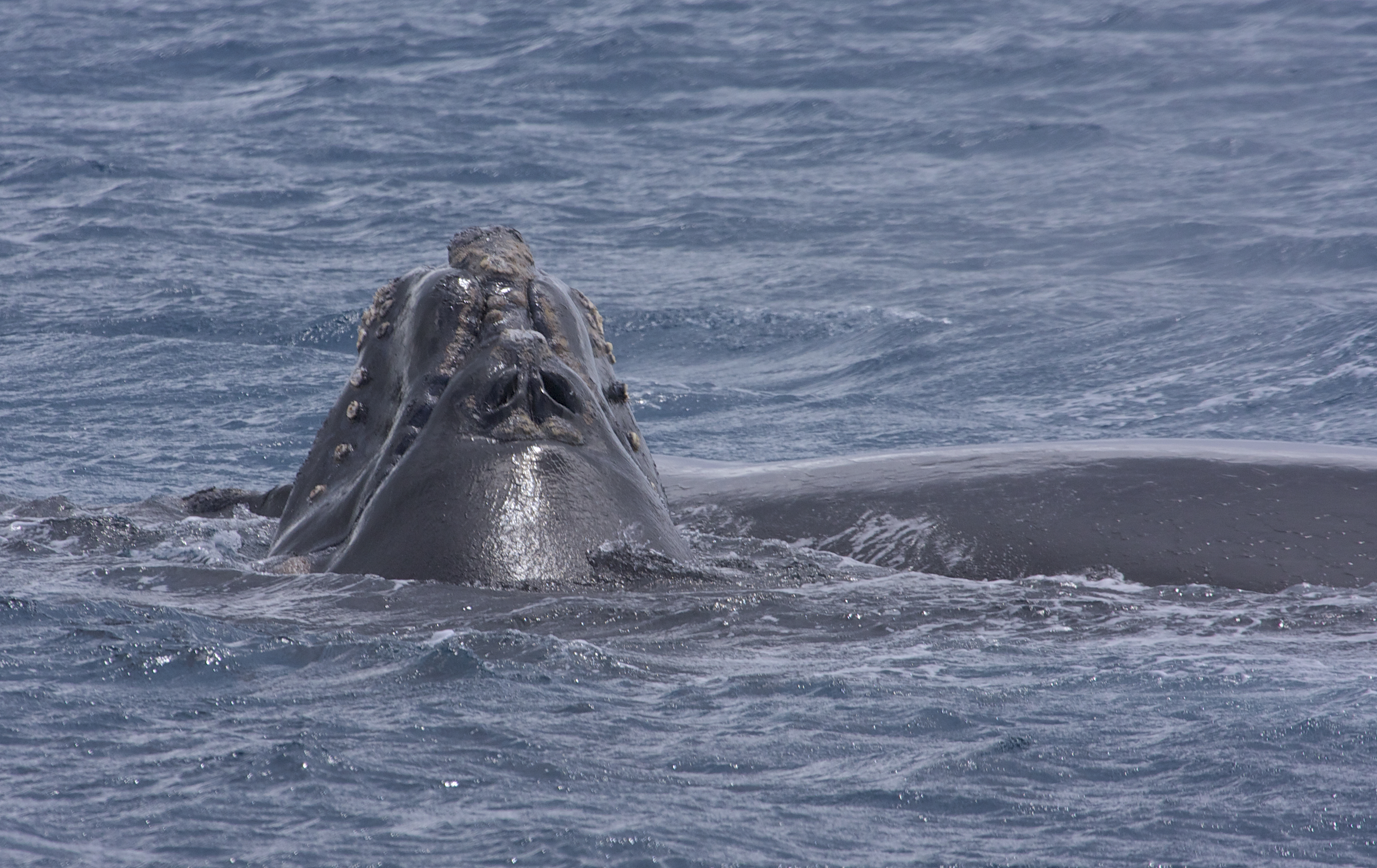 At this point, the cow is floating on its back and the calf is resting on its underside...